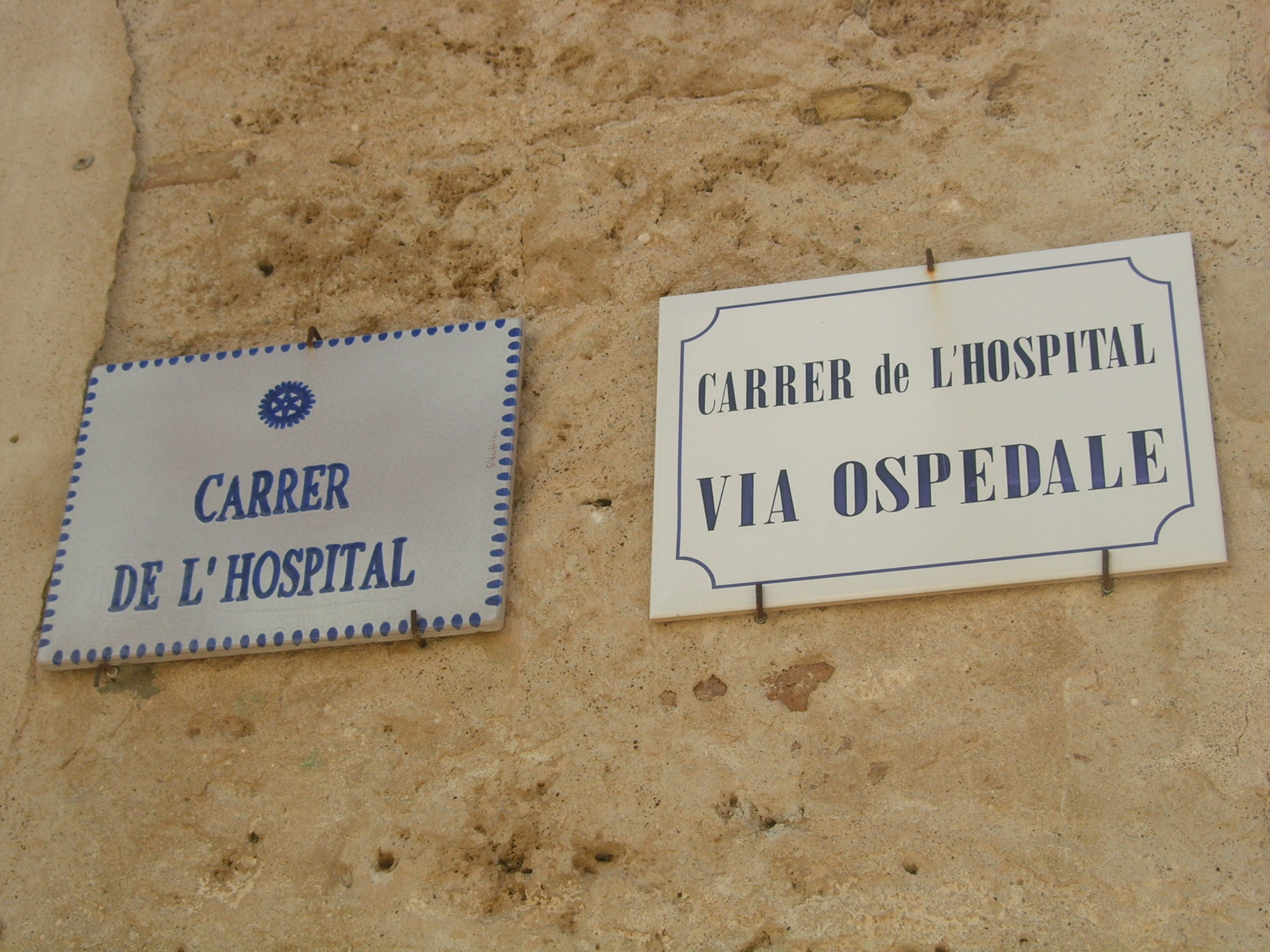 Summary Description